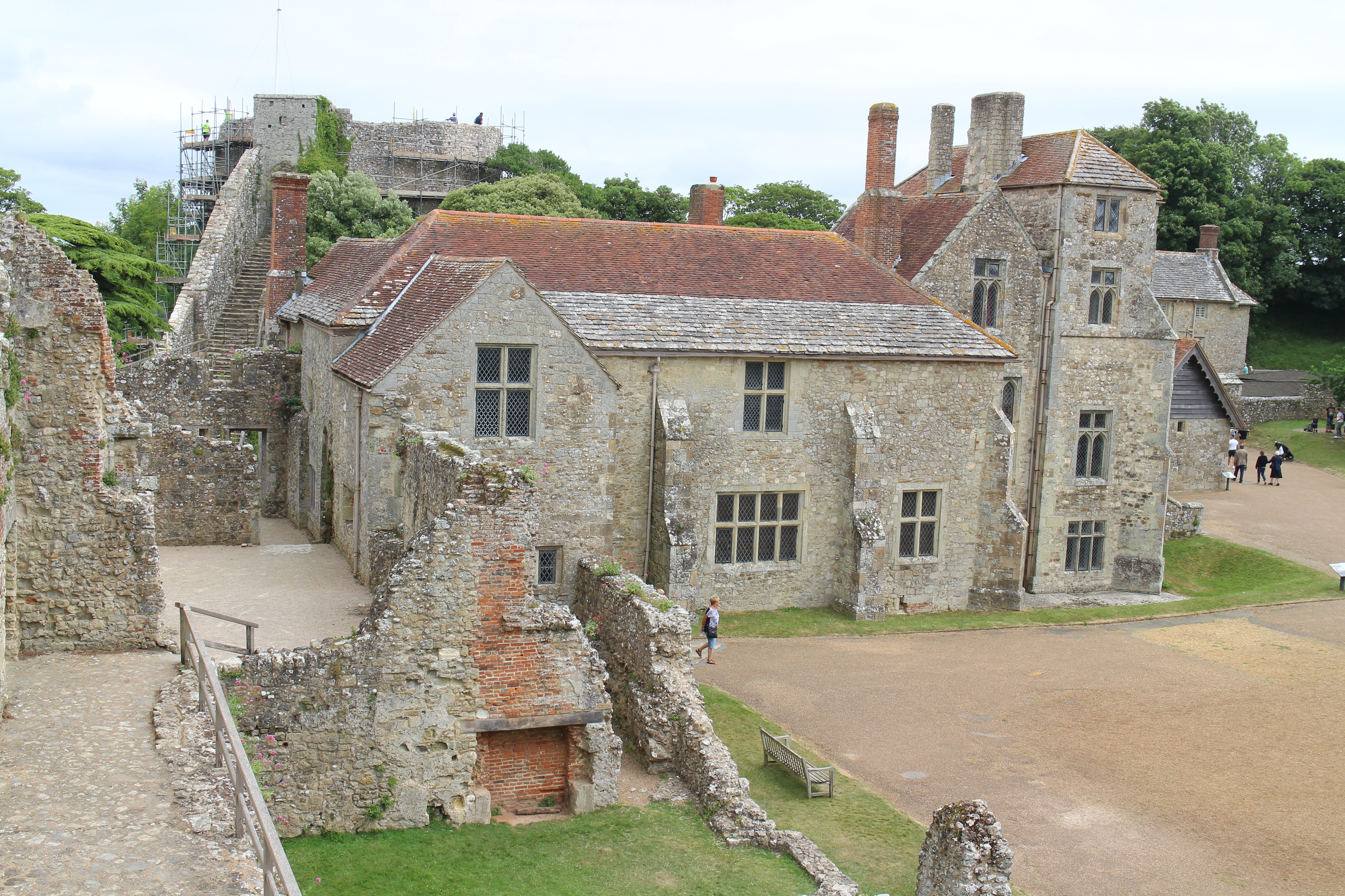 Carisbrooke Castle